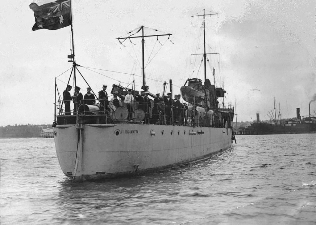 HMAS Parramatta circa 1910.